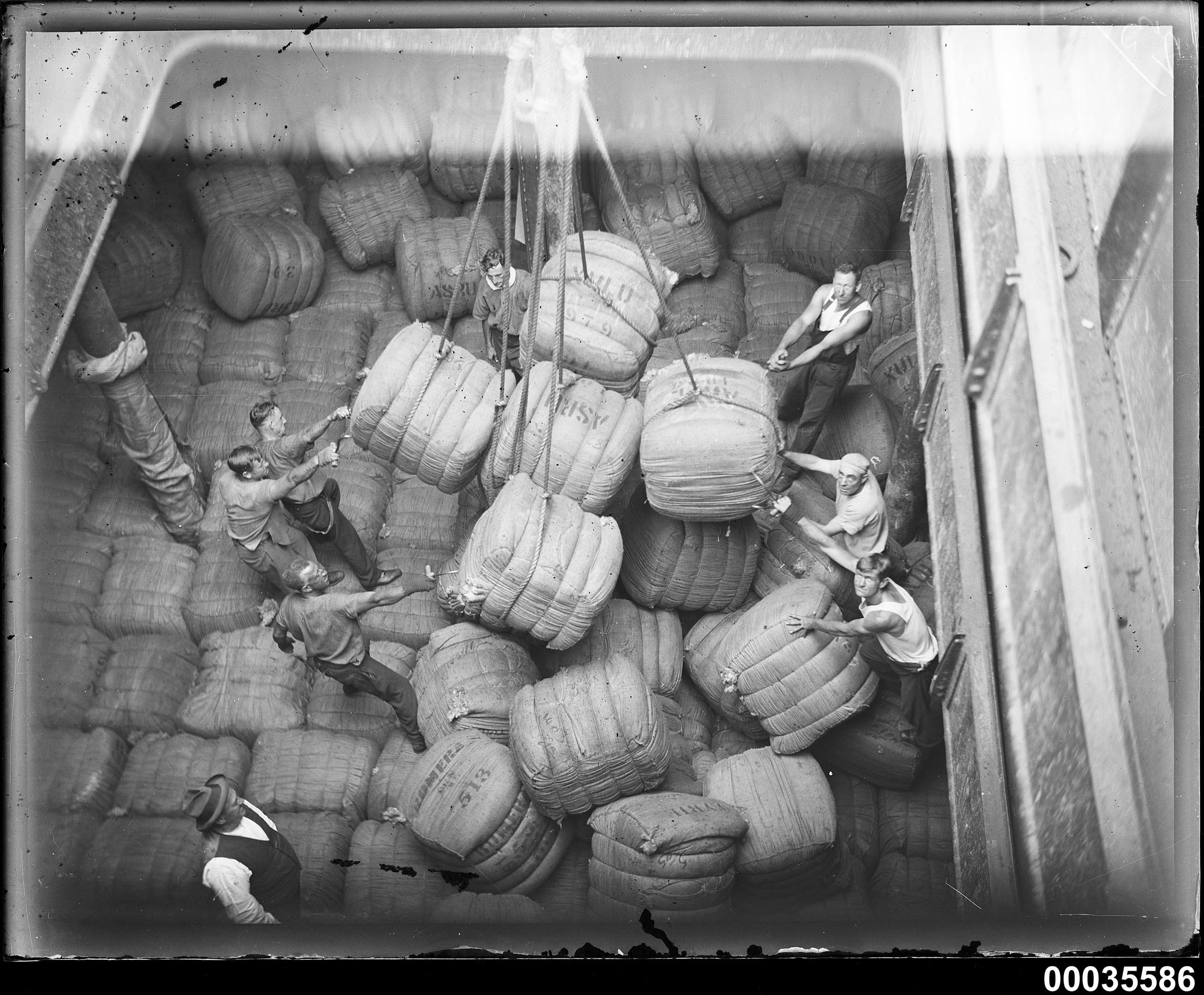 The four-masted steel barque, MAGDALENE VINNEN, was built in 1921 in Kiel, Germany for F A Vinnen and Company in Bremen. On 27 February 1933, under the command of Captain Lorenz Peters, MAGDALENE VINNEN sailed into Sydney Harbour. The masts were too tall to allow the vessel to pass under the Harbour Bridge to be berthed in Pyrmont, so it was moved to Number 2 wharf in Woolloomooloo. The barque was loaded with almost 16,000 bales of wool, the fourth largest shipment to have left Sydney, before it sailed the record-breaking 82-day voyage for Falmouth, England. The barque visited Australia again in 1935, with its cargo being wheat, lifted from Port Broughton in South Australia. The following year, the vessel was sold to Norddeutscher Lloyd, Bremen, renamed KOMMODORE JOHNSEN and used as a cargo carrier and sail-training ship. In 1945, the ship was awarded to the Soviet Union as war compensation and renamed SEDOV. When it was first built, it was the largest auxiliary barque in the world. To this day, it is still in operation and in 2011, it retained its ranking as the largest tall ship in the world. This photo is part of the Australian National Maritime Museum’s Samuel J. Hood Studio collection. Sam Hood (1872-1953) was a Sydney photographer with a passion for ships. His 60-year career spanned the romantic age of sail and two world wars. The photos in the collection were taken mainly in Sydney and Newcastle during the first half of the 20th century. The ANMM undertakes research and accepts public comments that enhance the information we hold about images in our collection. This record has been updated accordingly. Photographer: Samuel J. Hood Studio Collection Object no. 00035586